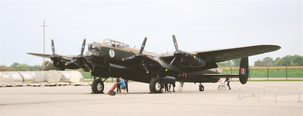 RCAF Avro Lancaster Mk. X rolled out outside the museum hangar at the Canadian Warplane Heritage Museum. This plane is one of only two airworthy Lancasters in the world. Photo taken on September 4, 2006. Source: Photo by me, User:Balcer.